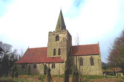 The Church of St Magnus, Bessingby, East Riding of Yorkshire, England.